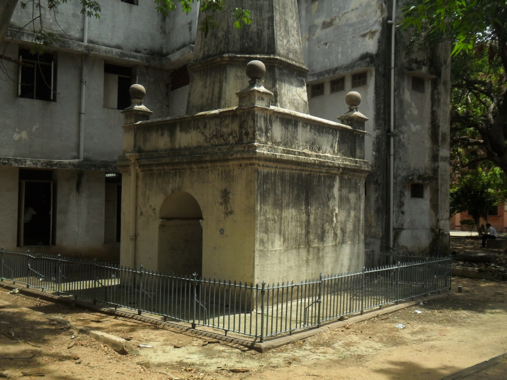 This tomb is located in campus of Dr. Ambedkar Law College, Chennai.